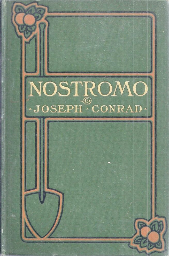 First edition hard cover of Nostromo